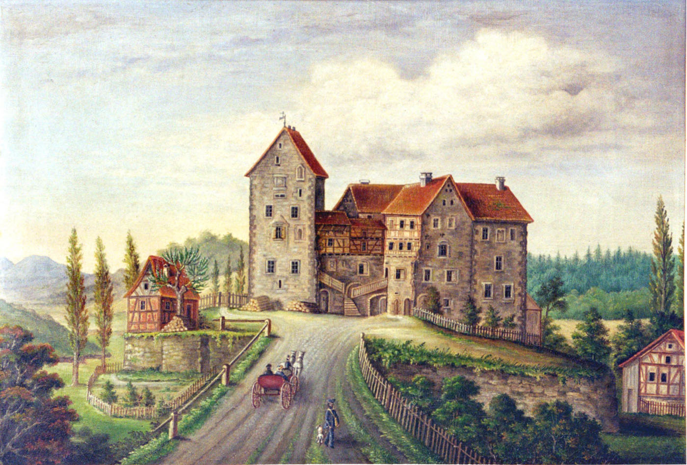 Photo of oldest known painting of Brennhausen Image has been heavily digitally restored.